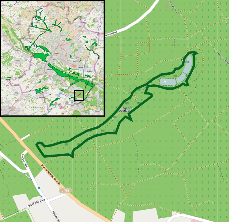 Bielefeld - Nature reserve Sprungbach Oberlauf - overview mapNumber and borders of nature reserves are subject to frequent change. In order to facilitate reproduction of this map from openstreetmap, the following data is stored here: export boundaries: north: 51.947; west: 8.59; east: 8.61; south: 51.935, mapnik svg, scale 1:10.000 nature reserve boundary stroke weight 10.0; nature reserve stroke color: R 5, G 102, B 36; municipality border stroke weight: as found